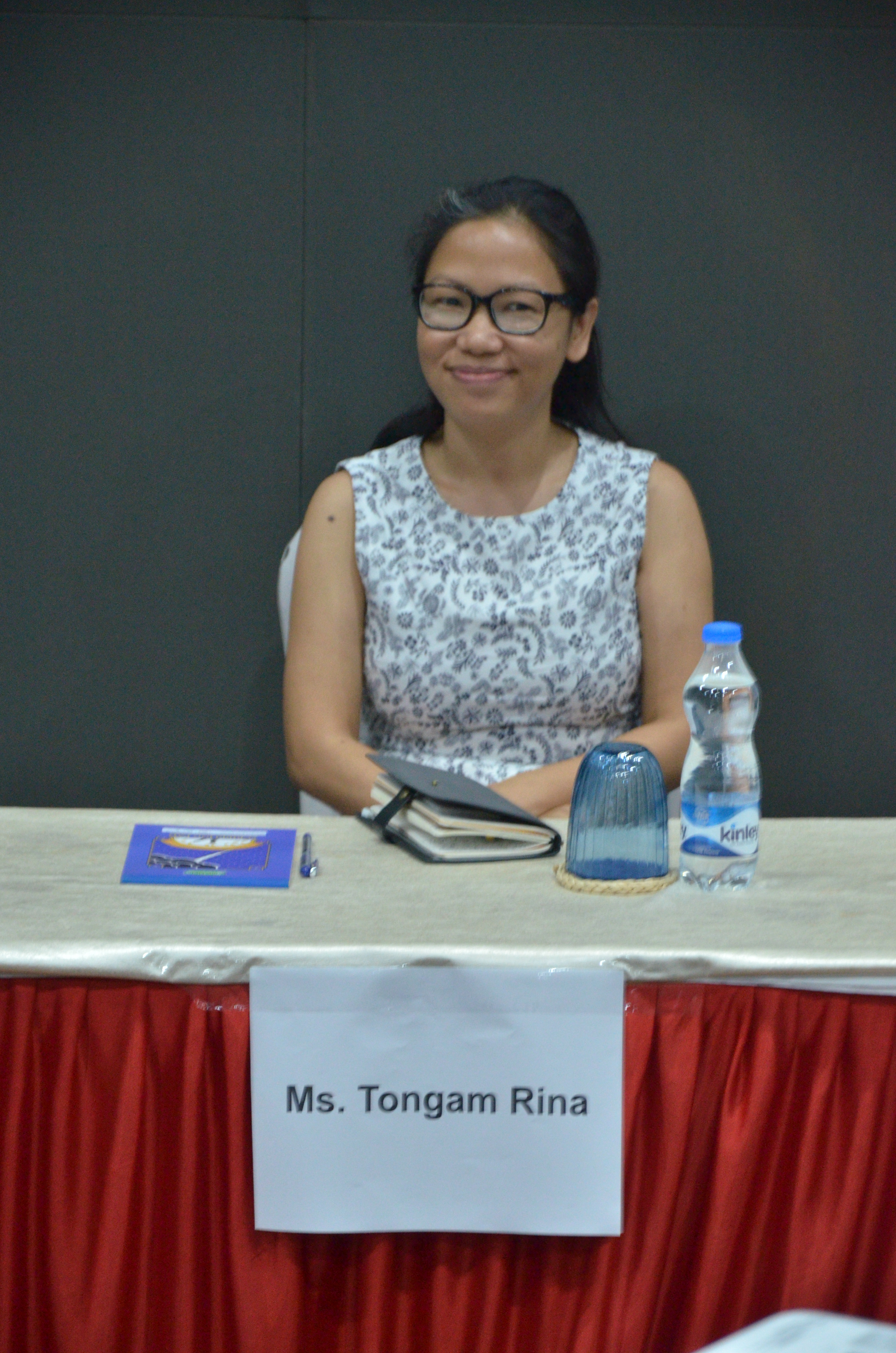 Tongam Rina speaking at TEDxGEC: Inquilab in 2019